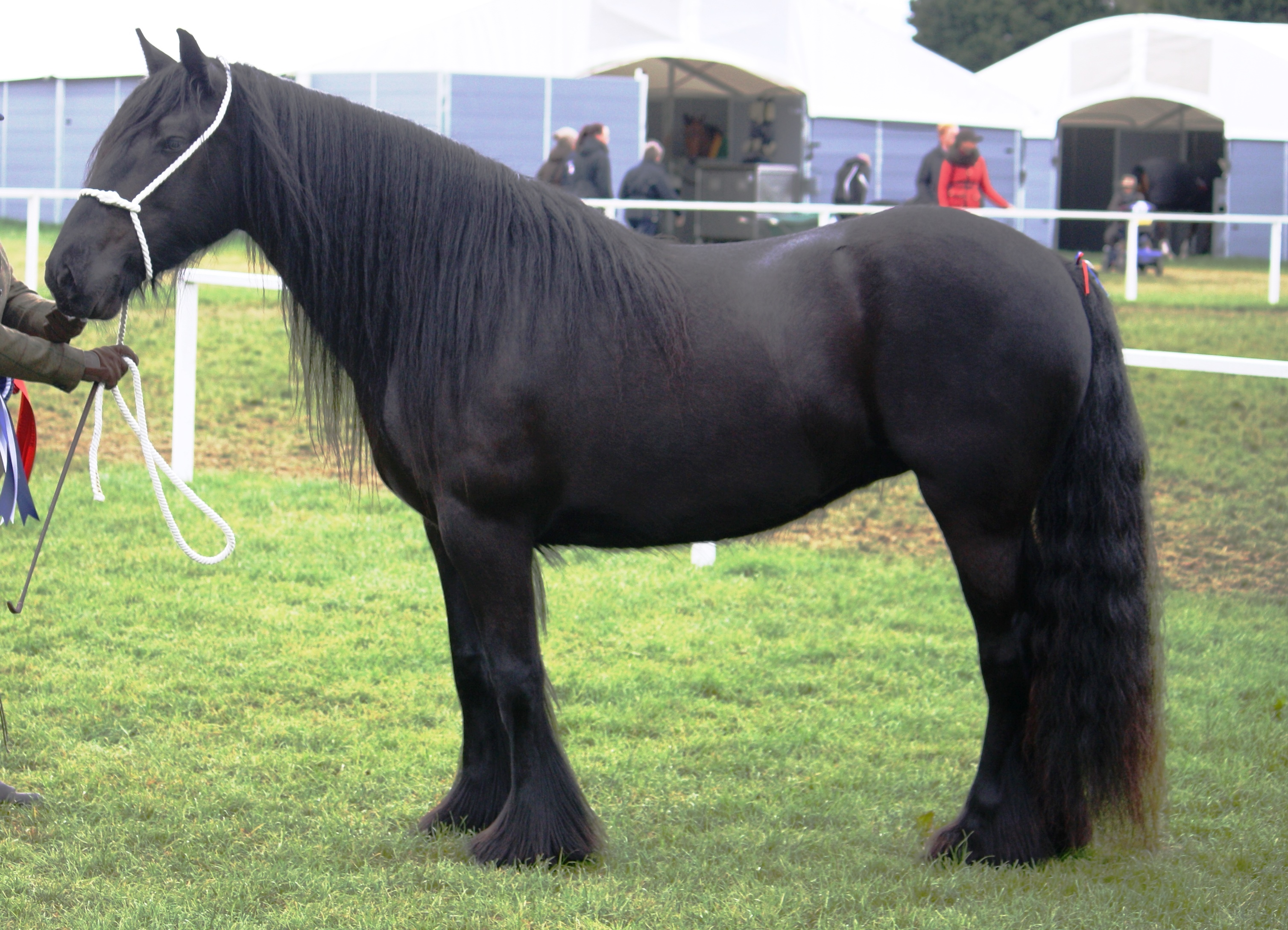 4 year old Dales Pony Mare.